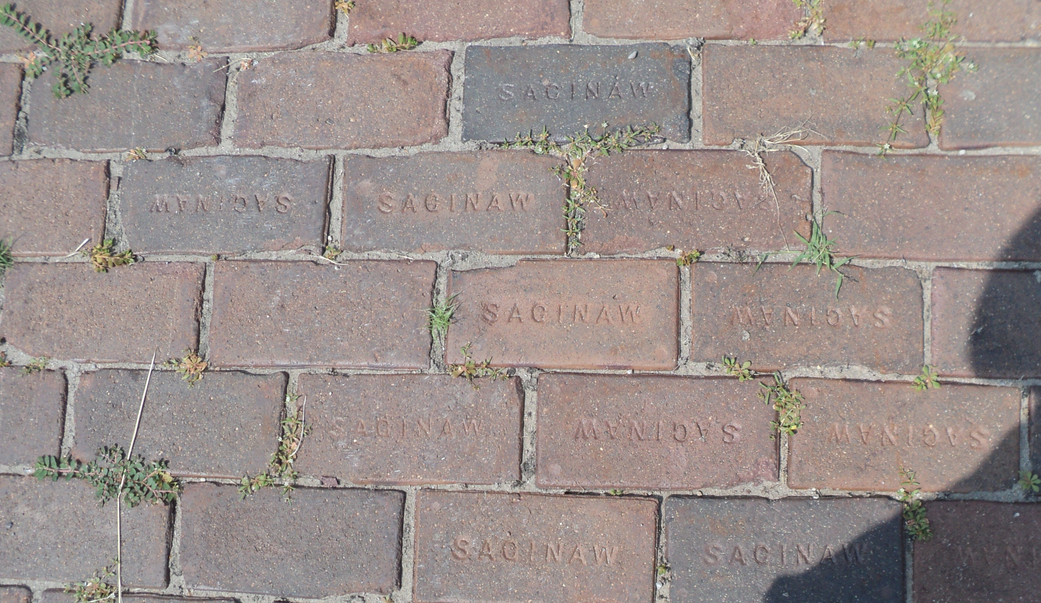 I looked down and noticed the bricks that said "Saginaw" at the station. Made in Saginaw, Michigan?